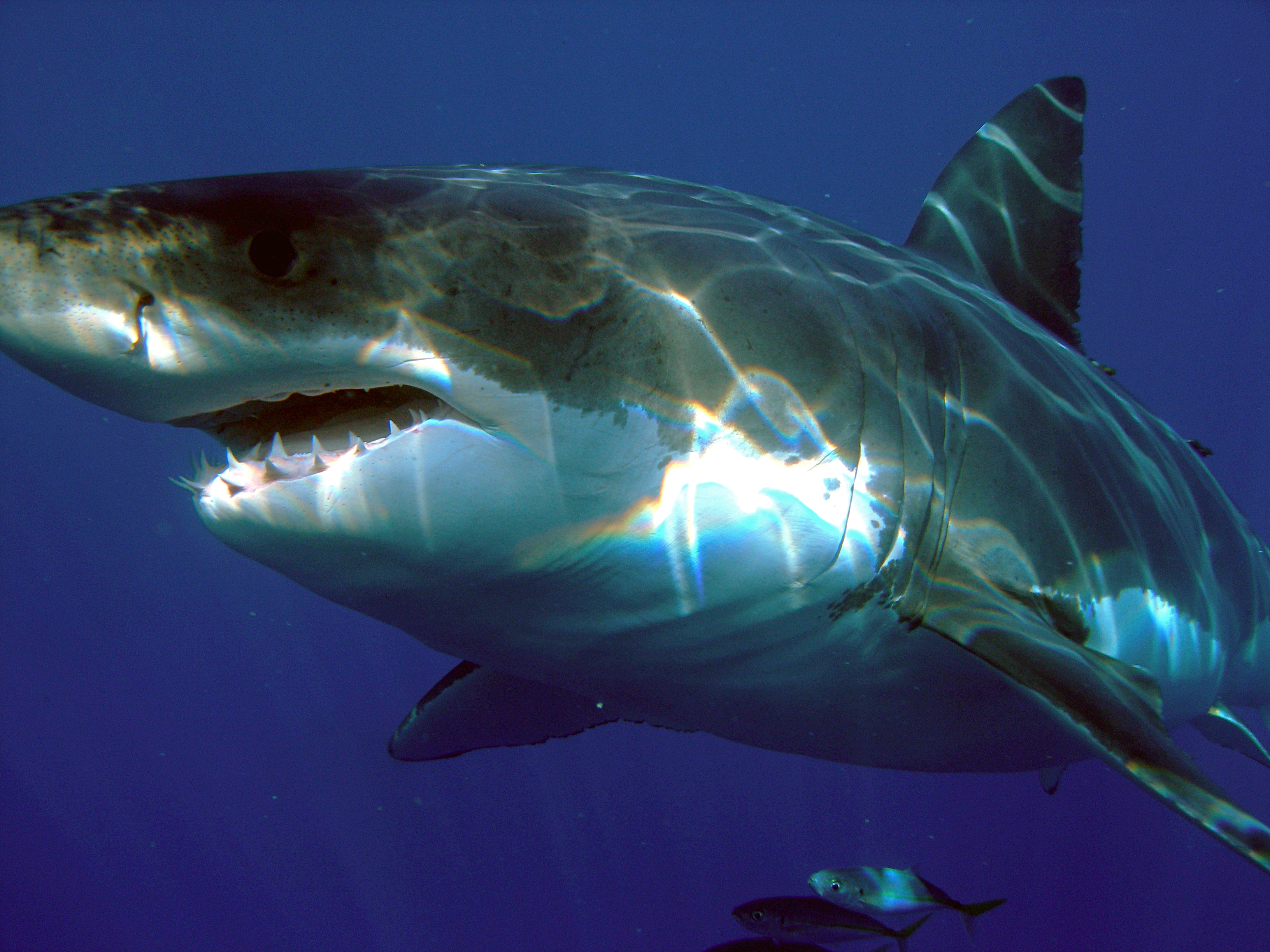 Great white shark (Carcharodon carcharias), Isla Guadalupe, Mexico